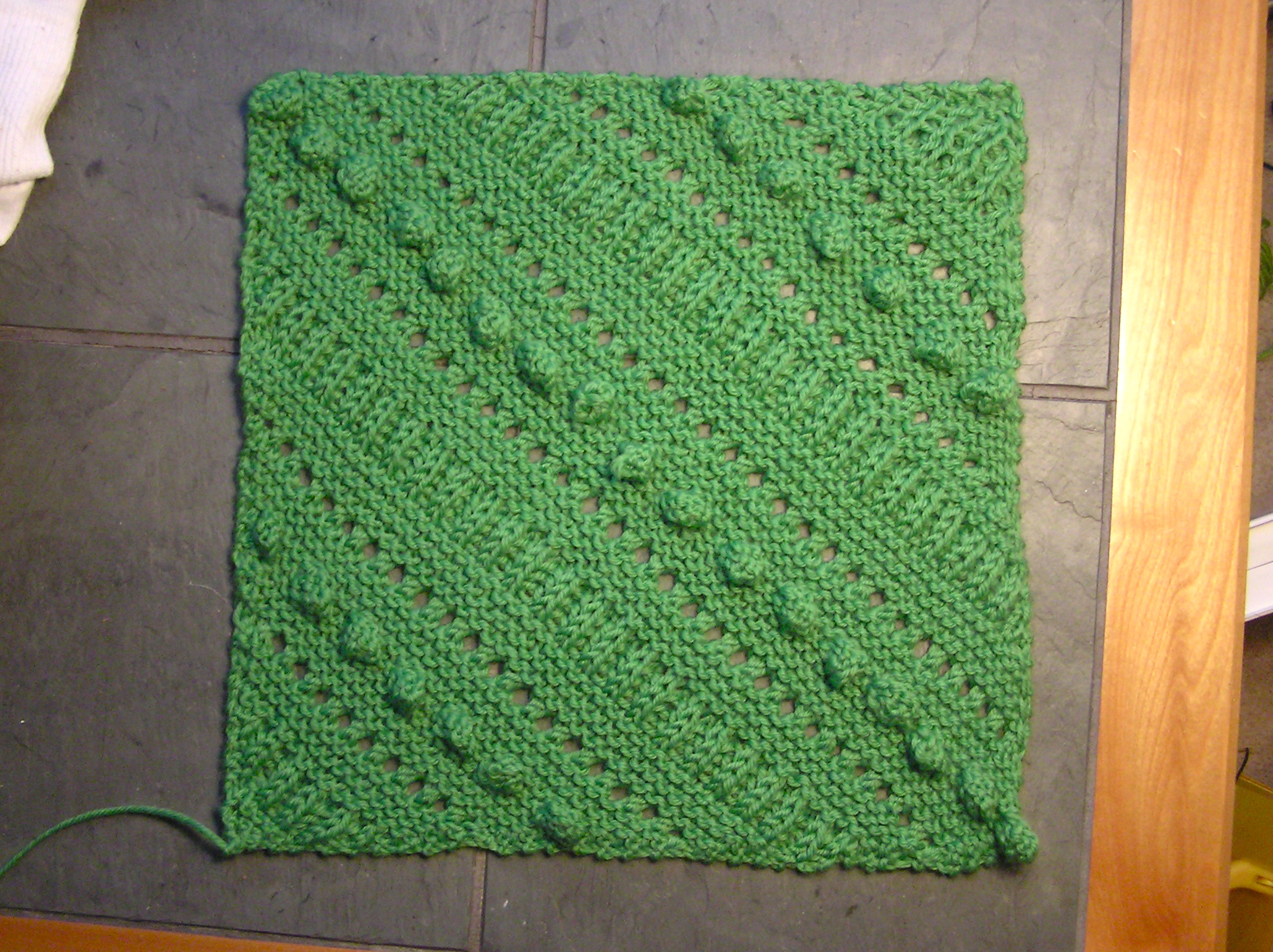 Hand knit bobbles close-up; Lily Chin designed square pattern.